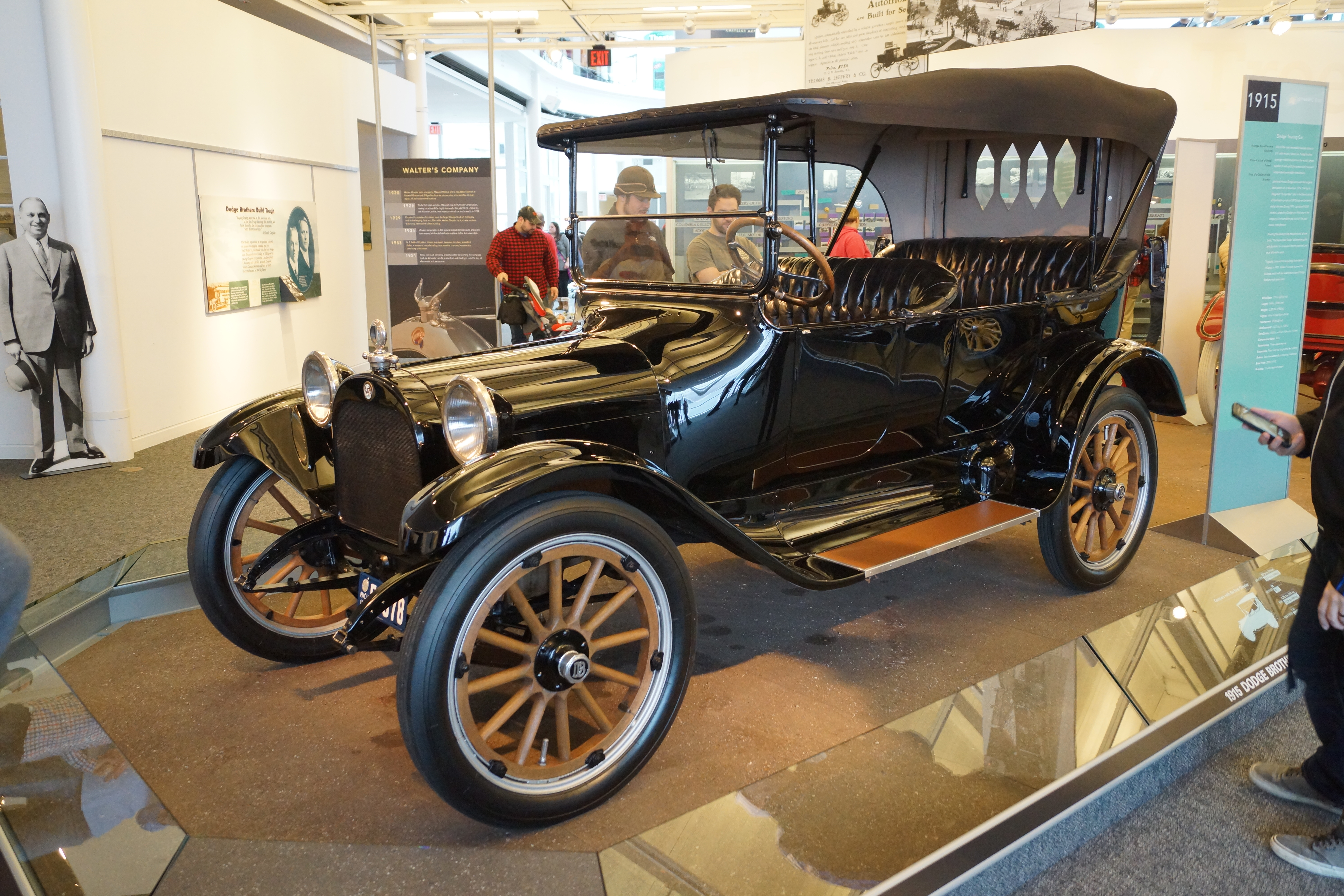 Click here for more car pictures at my Flickr site. Or here for my Car Crazy Tumblr site. Back on November 4th, Hemming's Blog posted an article about the closing of the Walter P. Chrysler Museum . I had missed a couple other opportunities with the WPC Club and others to get into the museum, after it had closed to the public. I did not want to regret missing this last chance to see all of the vehicles before being spread out to other facilities. I trekked from Western Minnesota to Eastern Michigan during Winter Storm Decima. I missed the worst parts of the storm, but still had to endure the aftermath winds, sub zero temperatures and a lake effect snow storm. The trip was difficult, but well worth it. I got to see several Chrysler Corporation concept and show cars that I had only seen pictures of before. There were several clever interactive displays demonstrating various innovations over the years. Since it was the last chance, I duplicated several shots using different camera settings to see what produced better results. I wish I had invested in a strobe light diffuser for all of those indoor pictures. I have not had much experience or success in the past with indoor car images.